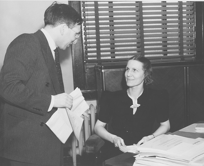 A very young Wilbur Cohen is shown here in the early days of Social Security with Maurine Mulliner who was the Executive Secretary to the Social Security Board.